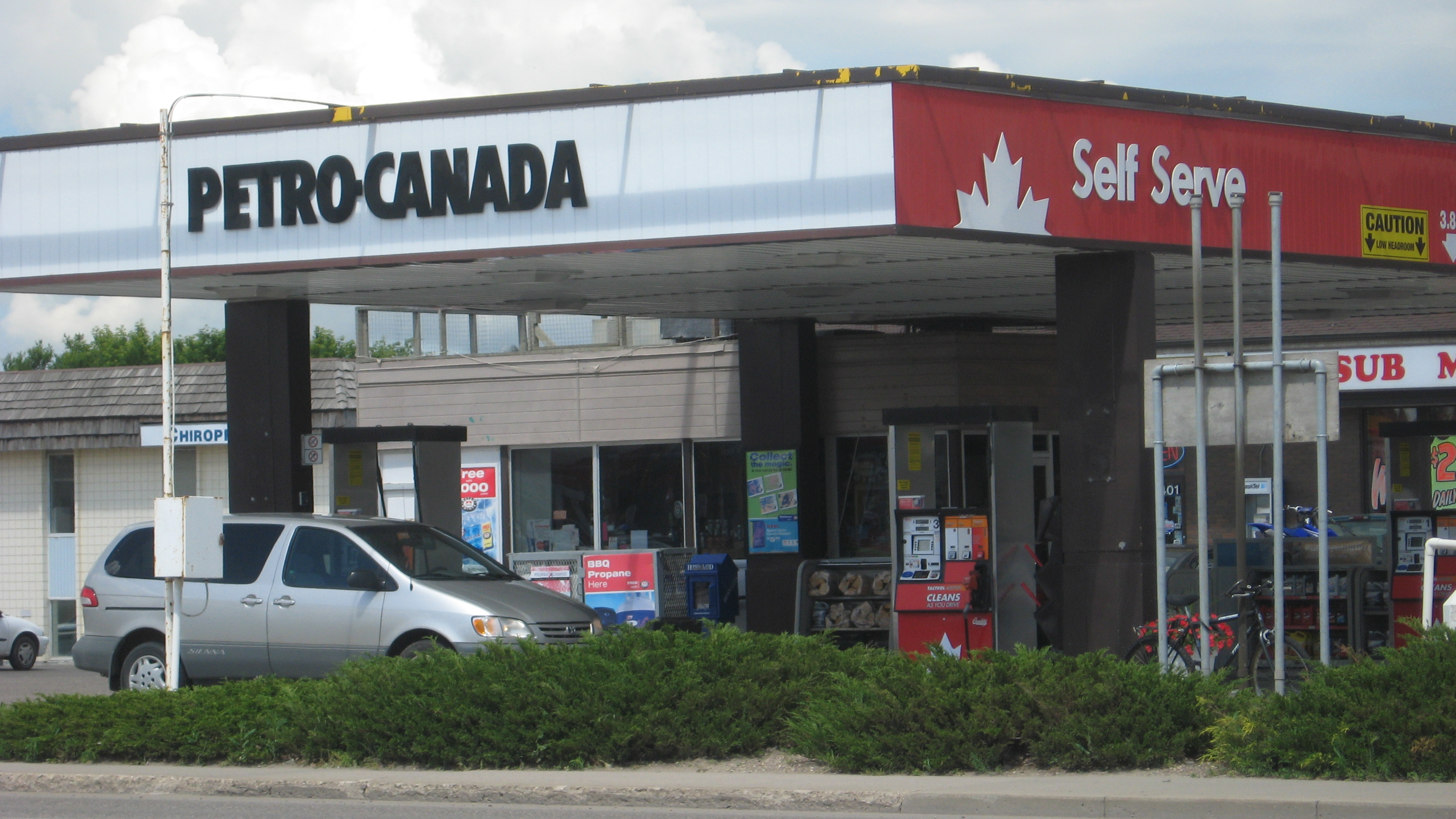 another example of what Canadians call a gasbar.